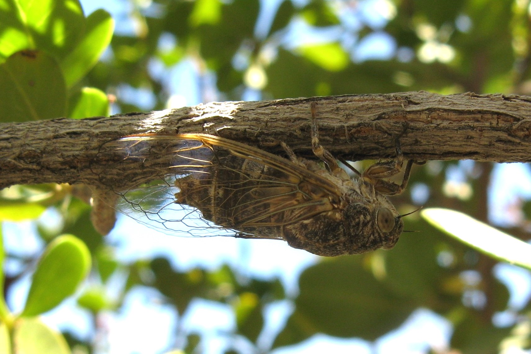 Cicada